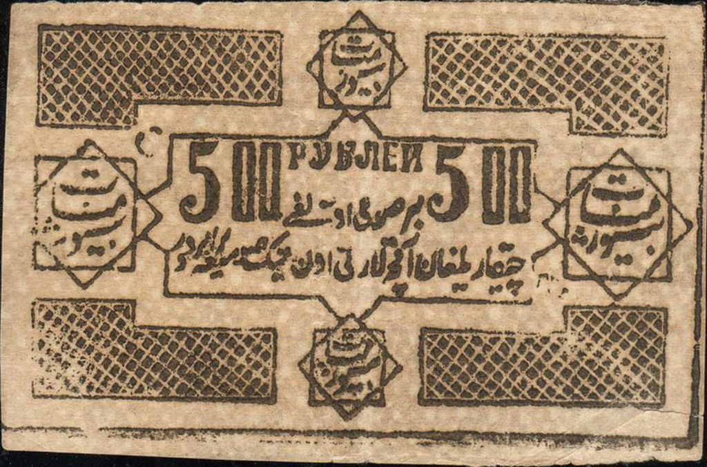 A banknote issued by the revolutionary government of the Khorezm People's Soviet Republic.